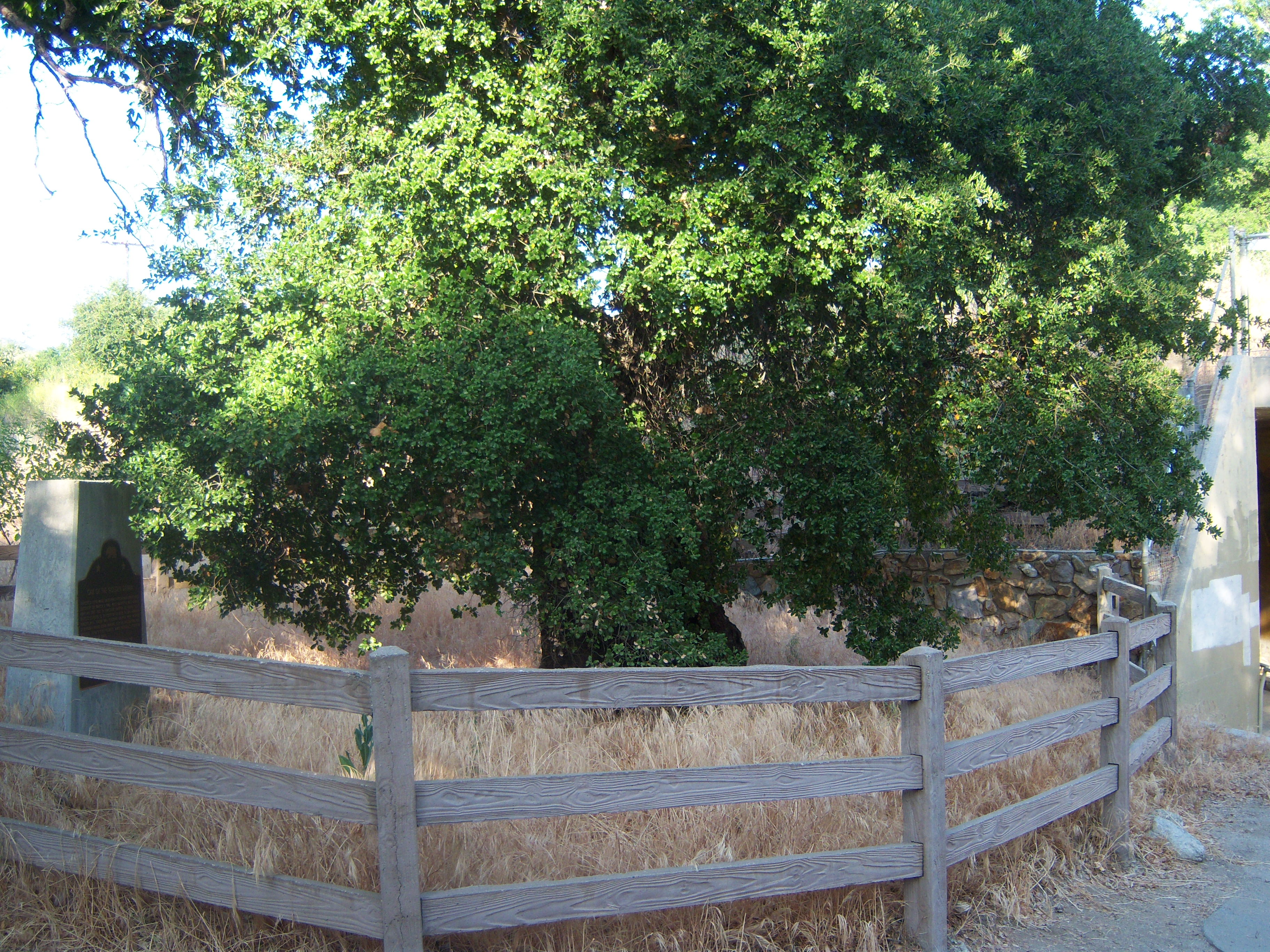 Oak of the Golden Dream, Placerita Canyon State Park, California, USA.